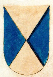 Coat of arms of the Guidi di Bagno noble family.